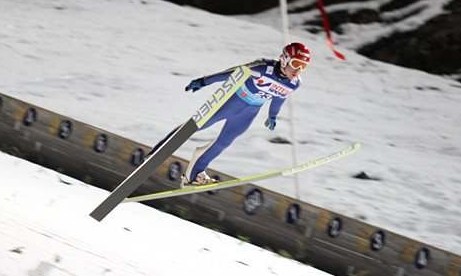 Janne Happonen during canceled competition of FIS Ski-Flying World Championships 2012 in Vikersund